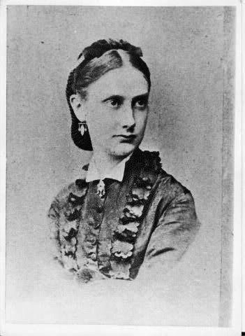 Princess Maria Luisa of Bourbon-Two Sicilies, Countess of Bardi